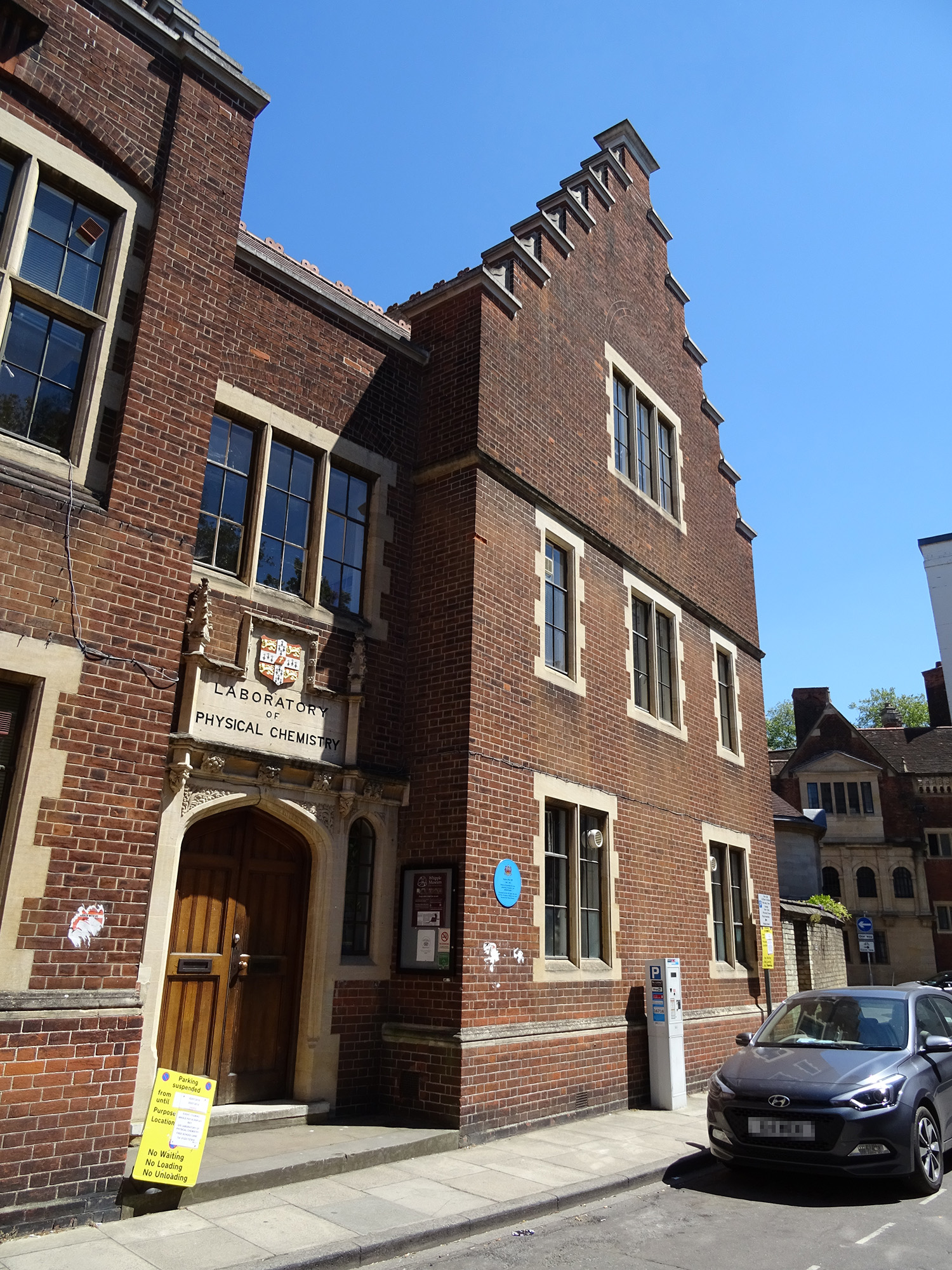 "Stephen Perse MD 1548-1615 Fellow of Gonville & Caius, physician, financier and philanthropist. Founded by his will upon this site the Free Grammar School that later became the Perse School" - The Whipple Museum of the History of Science, Free School Lane, Cambridge CB2 3RH